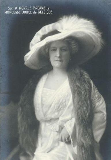 Louise-Marie (1858-1924) - princess of Belgium, duchess of Saxe-Coburg and Gotha